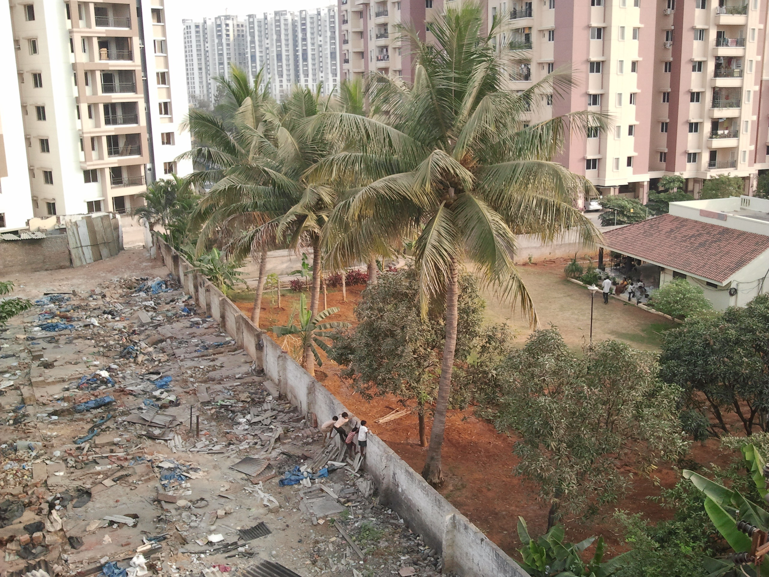 Poor kids from a razed construction workers' slum look at their well-to-do neighbours. View from Sri Venkateswara Nilayam building in Kondapur, Hyderabad (Ranga Reddy district), India.